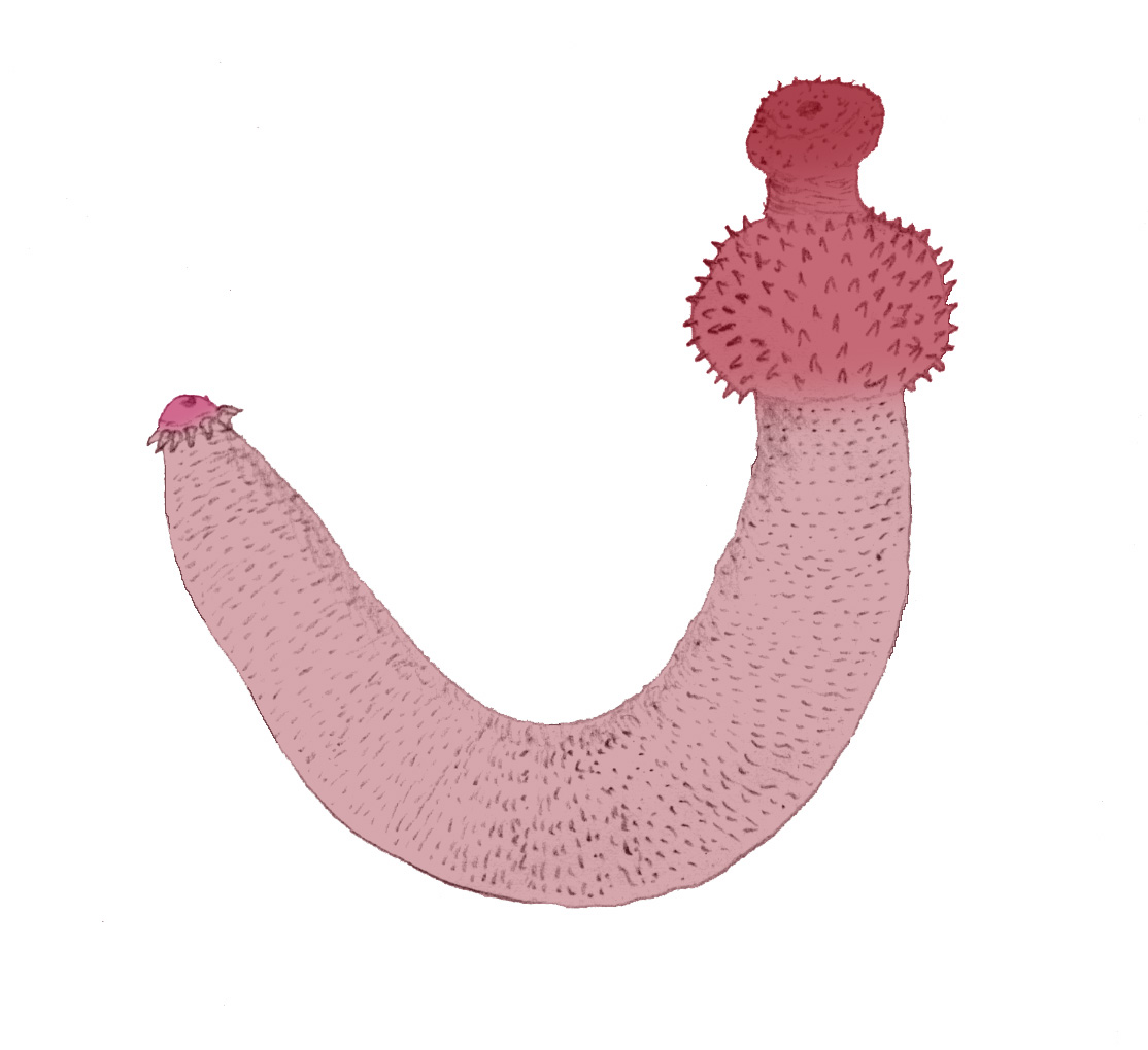 Reconstruction of Ottoia, an extinct priapulid